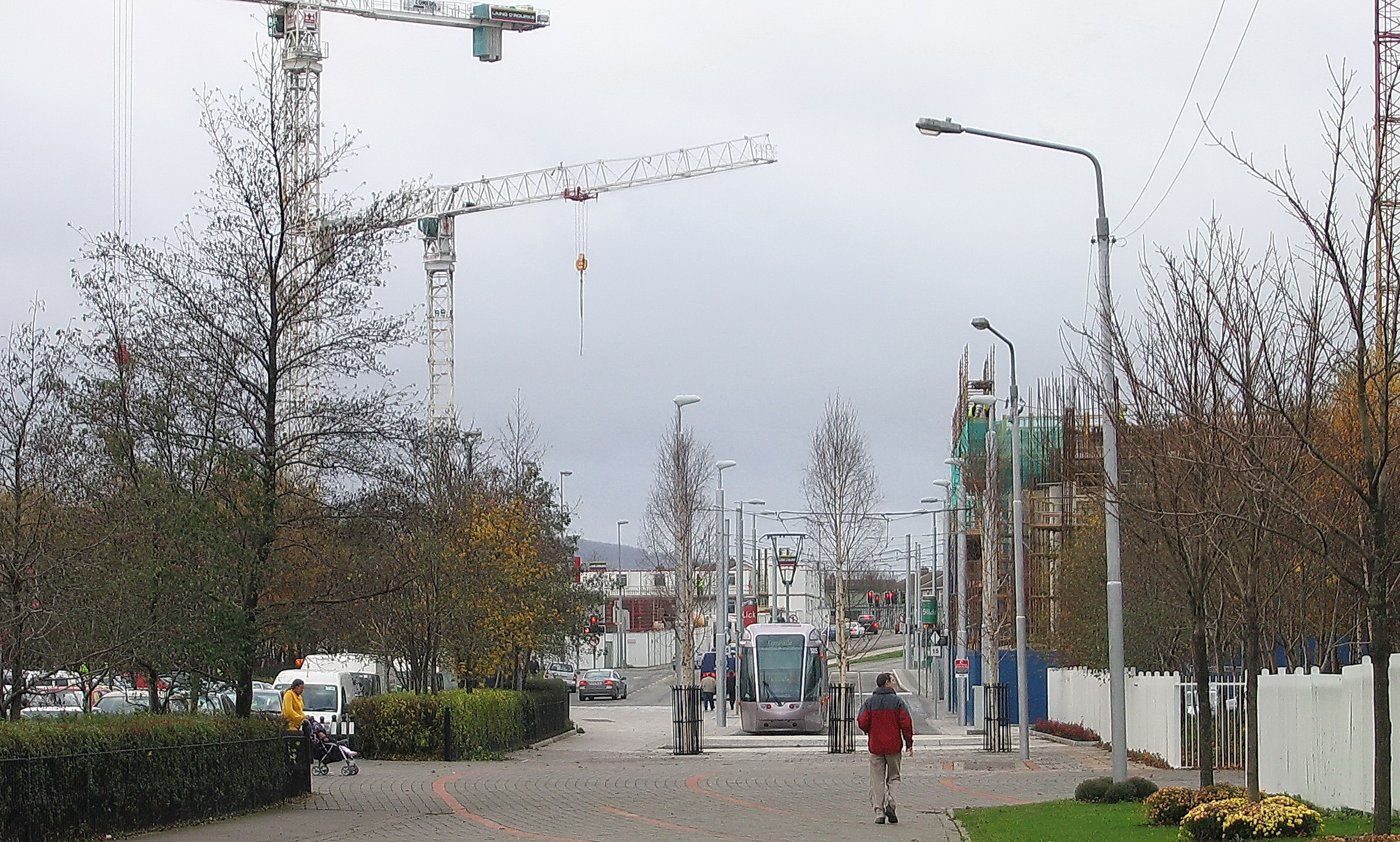 The LUAS Red Line terminus in Tallaght